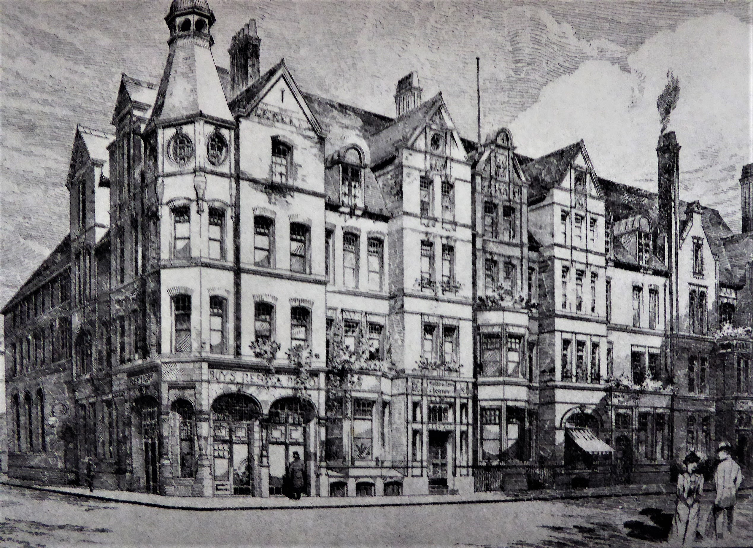 Manchester and Salford Boys and Girls Refuges, Great Ducie Street, Manchester, England, 1890